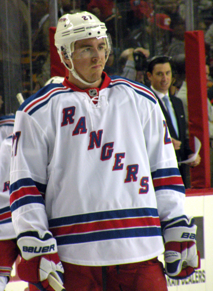 New York Rangers defenseman Ryan McDonagh prior to a National Hockey League game against the Calgary Flames, in Calgary.